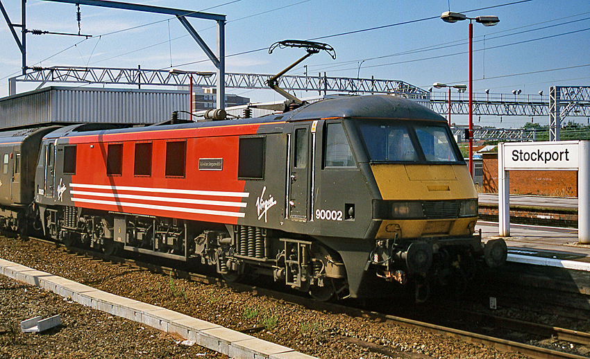 BR class 90 90002 Mission: Impossible in Virgin livery pauses at Stockport in 2002. Scanned from a Fujichrome 35mm slide.